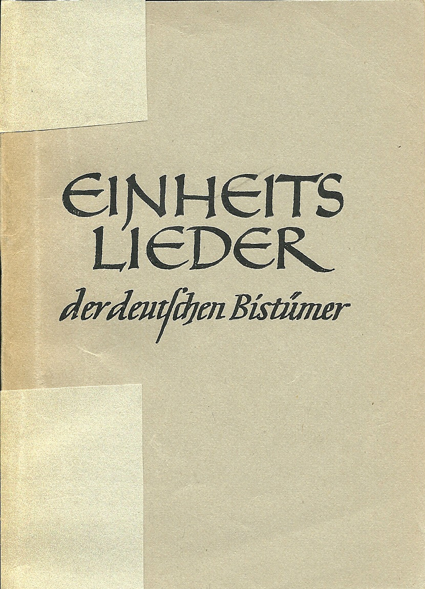 Fuldaer Bischofskonferenz (Hrsg.): Einheitslieder der deutschen Bistümer. Authentische Gesamtausgabe, Christophorus-Verlag, Freiburg im Breisgau, und Verlag B. Schott's Söhne, Mainz 1947 (Cover)